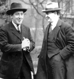 Harry Boland and Michael Collins.